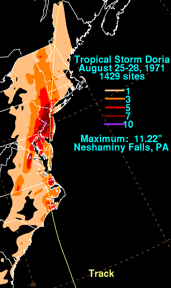 Storm total rainfall map of Tropical Storm Doria during August 1971.